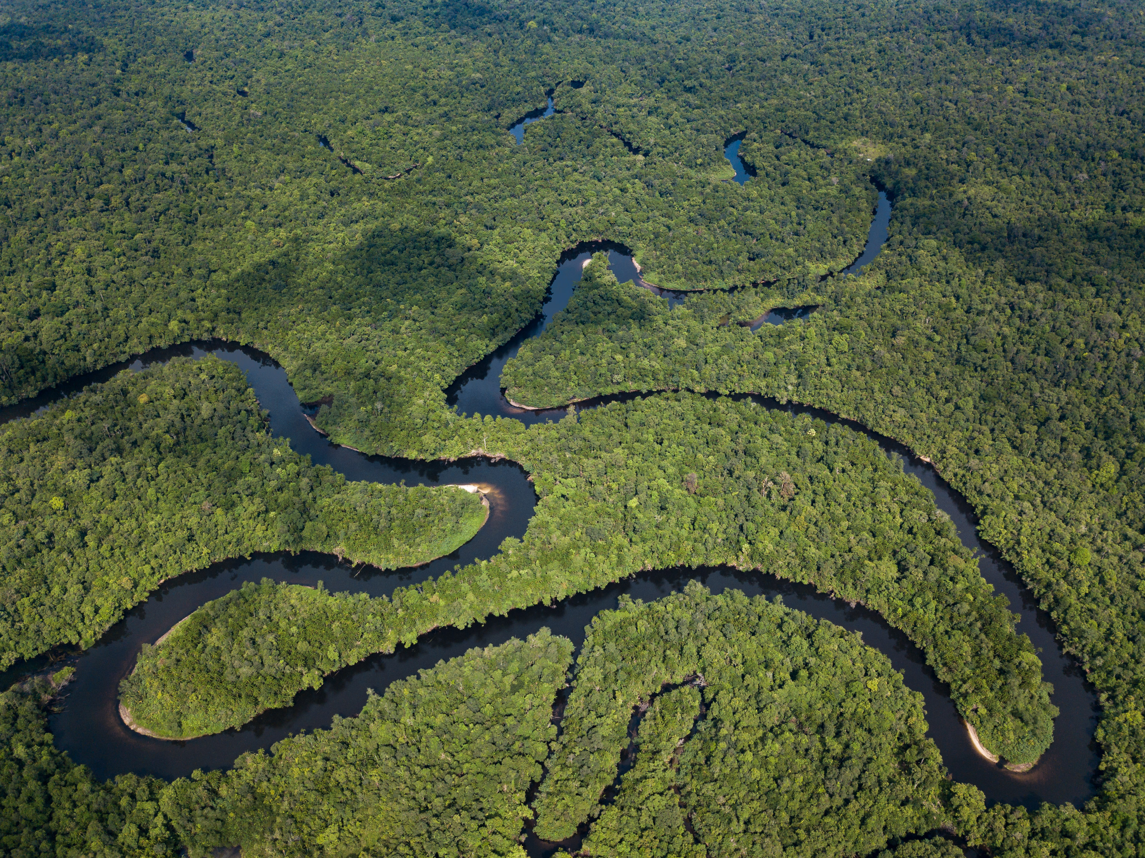 An aerial shot of the Cardamom Rainforest that Wildlife Alliance rangers actively protect 1.4 million hectares of.